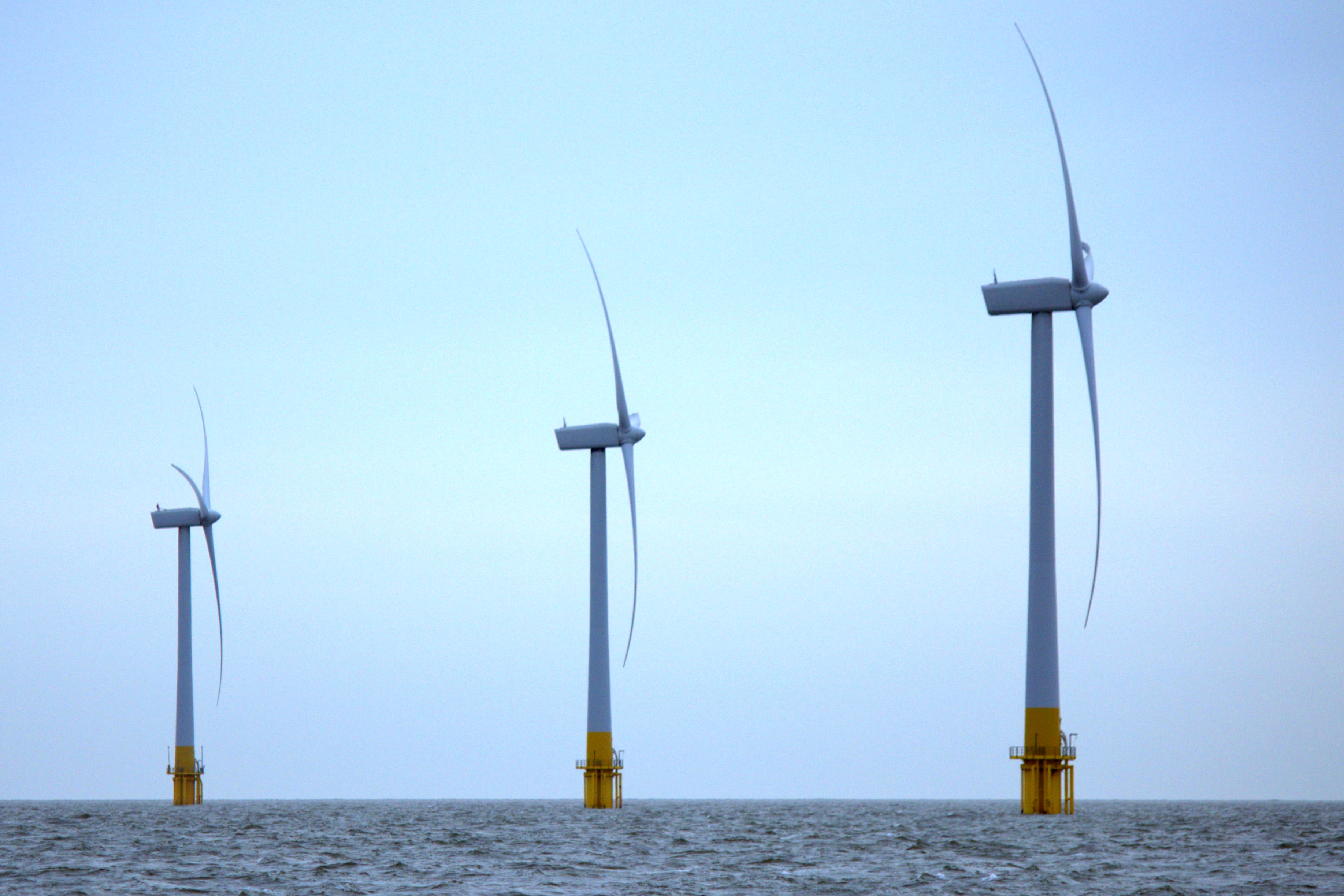 Scroby Sands Wind Farm, off Great Yarmouth.